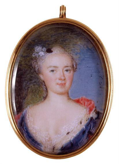 Mariana Victoria of Braganza (1768-1788), infanta of Portugal and Spain. Daughter of Queen Maria I of Portugal and her consort Pedro III, and sister of the future King João VI of Portugal. Wife of the Spanish infante Gabriel de Borbón, son of Carlos III of Spain.